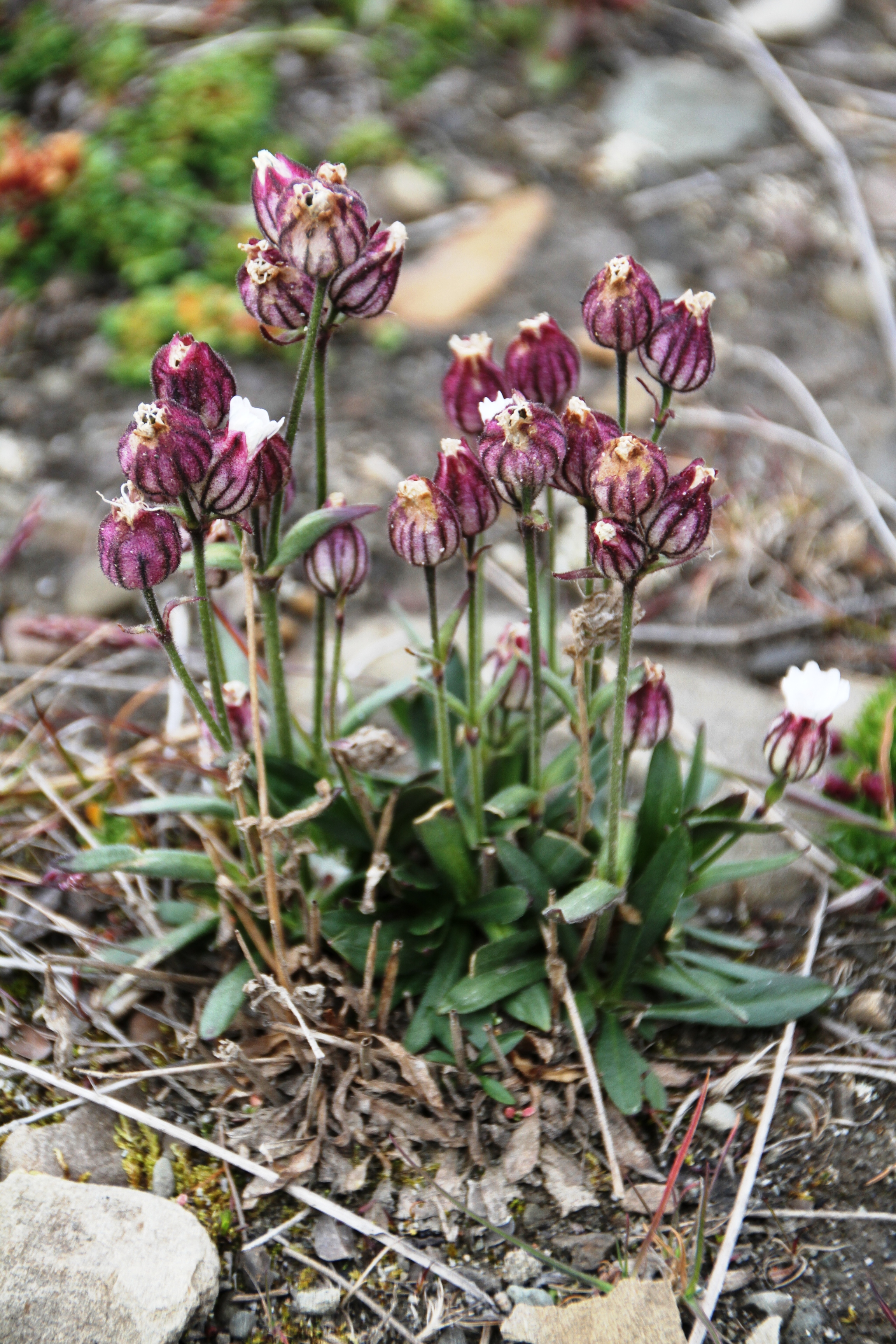 Silene speciemen observed at the island of Spitsbergen, Svalbard.